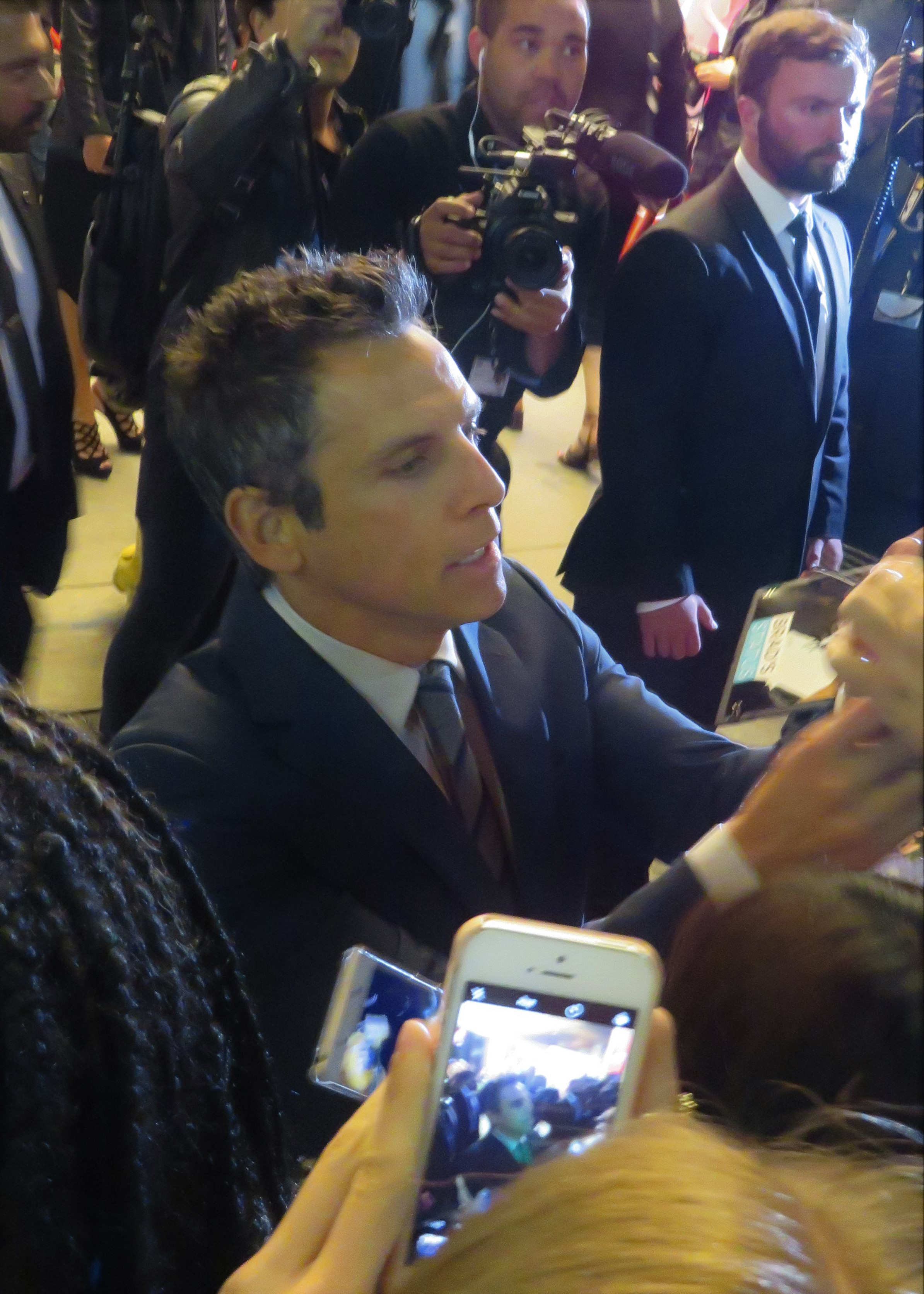 Ben Stiller at the premiere of Brad's Status, 2017 Toronto Film Festival